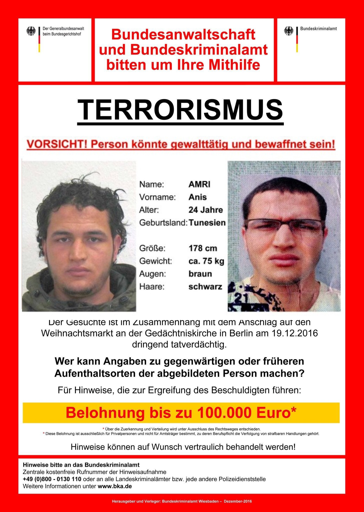 Anis Amri, muslim terrorist killed 12 people and injured 56 others by driving a truck into a Christmas market in Berlin and fleeing. Shot and killed days later near Milan. Killed innocent people in allegiance with ISIS/daesh